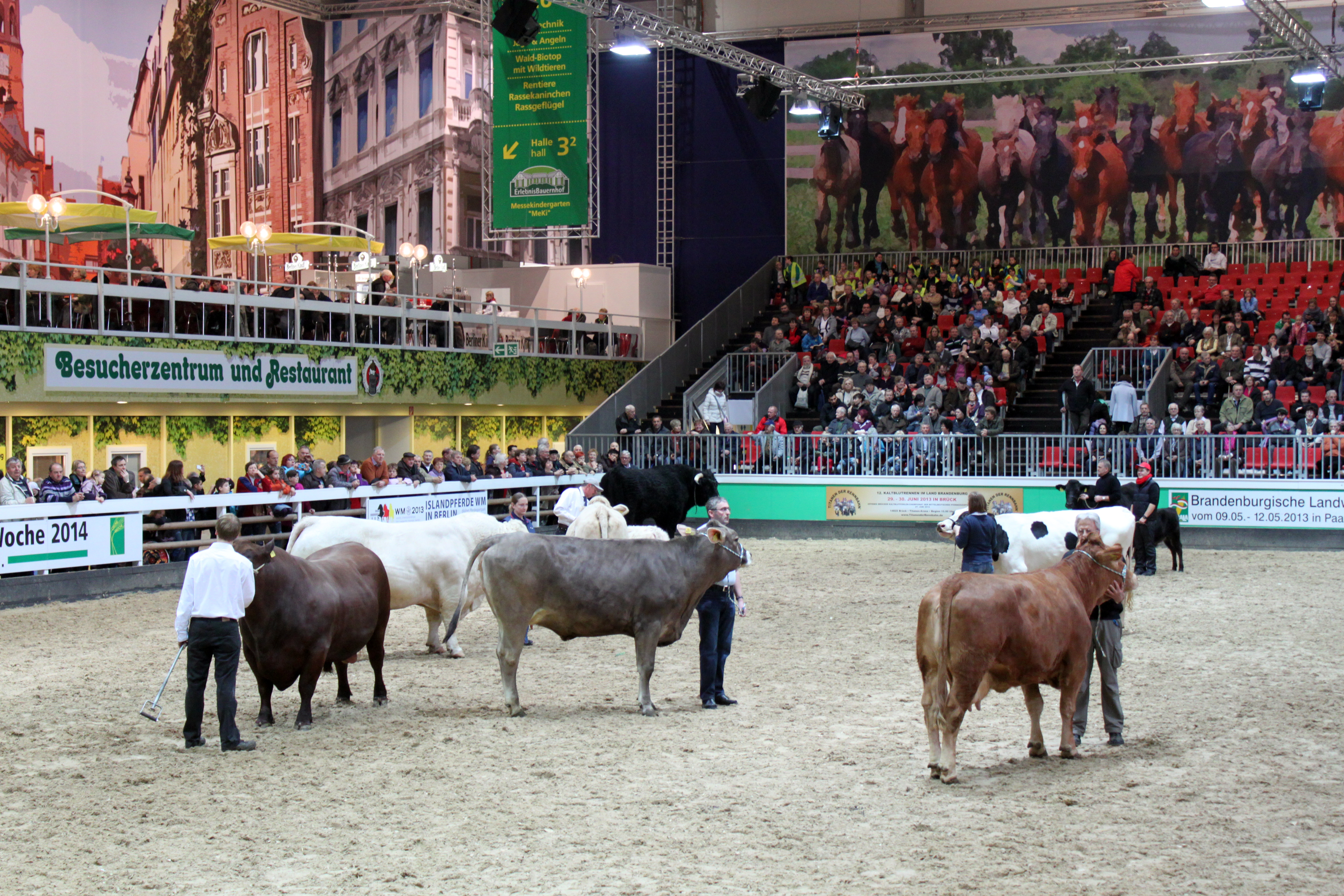 International Green Week (Grüne Woche) in Berlin on 24.01.2013